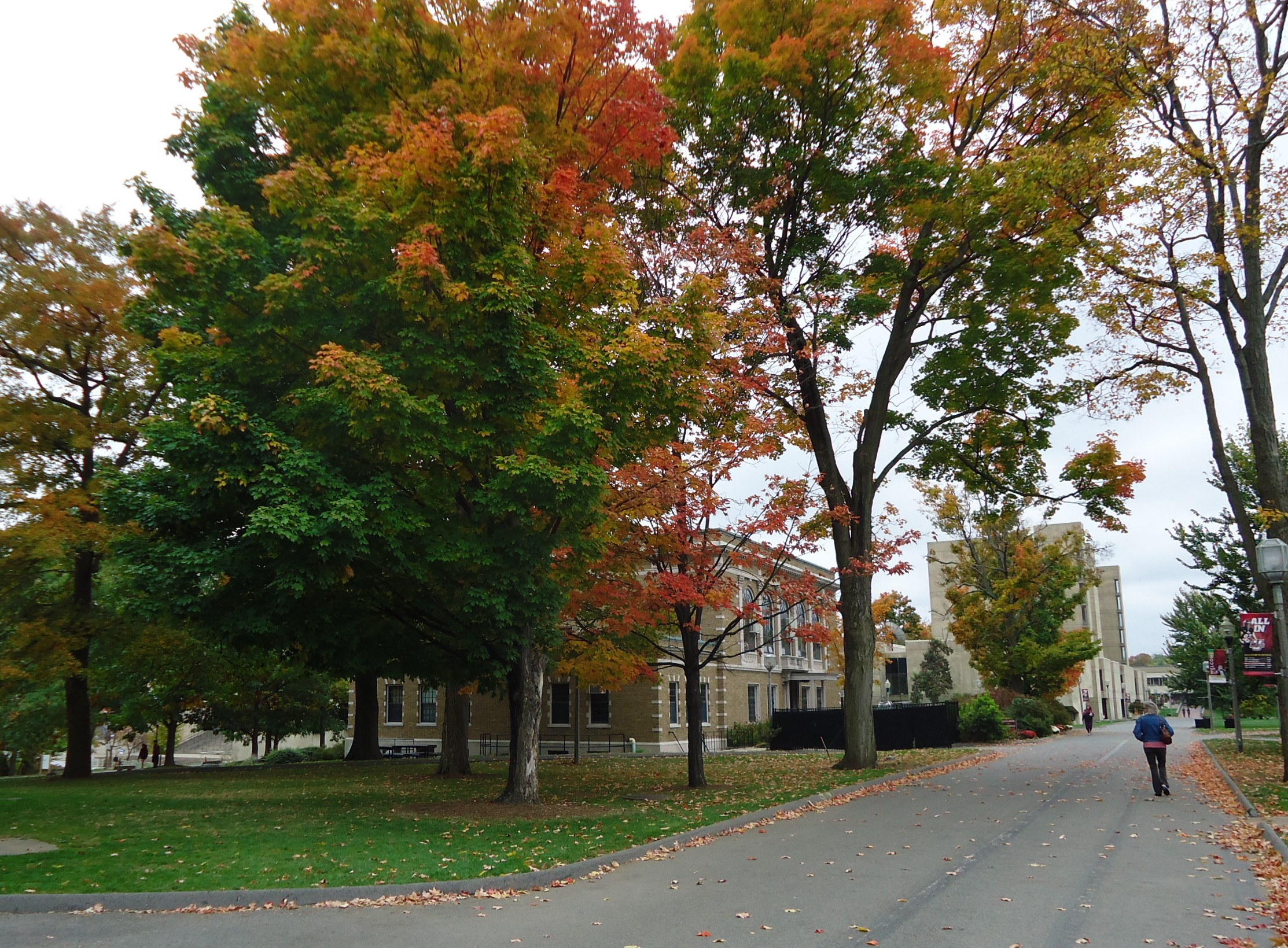 Early autumn scene at the University of Massachusetts Amherst.